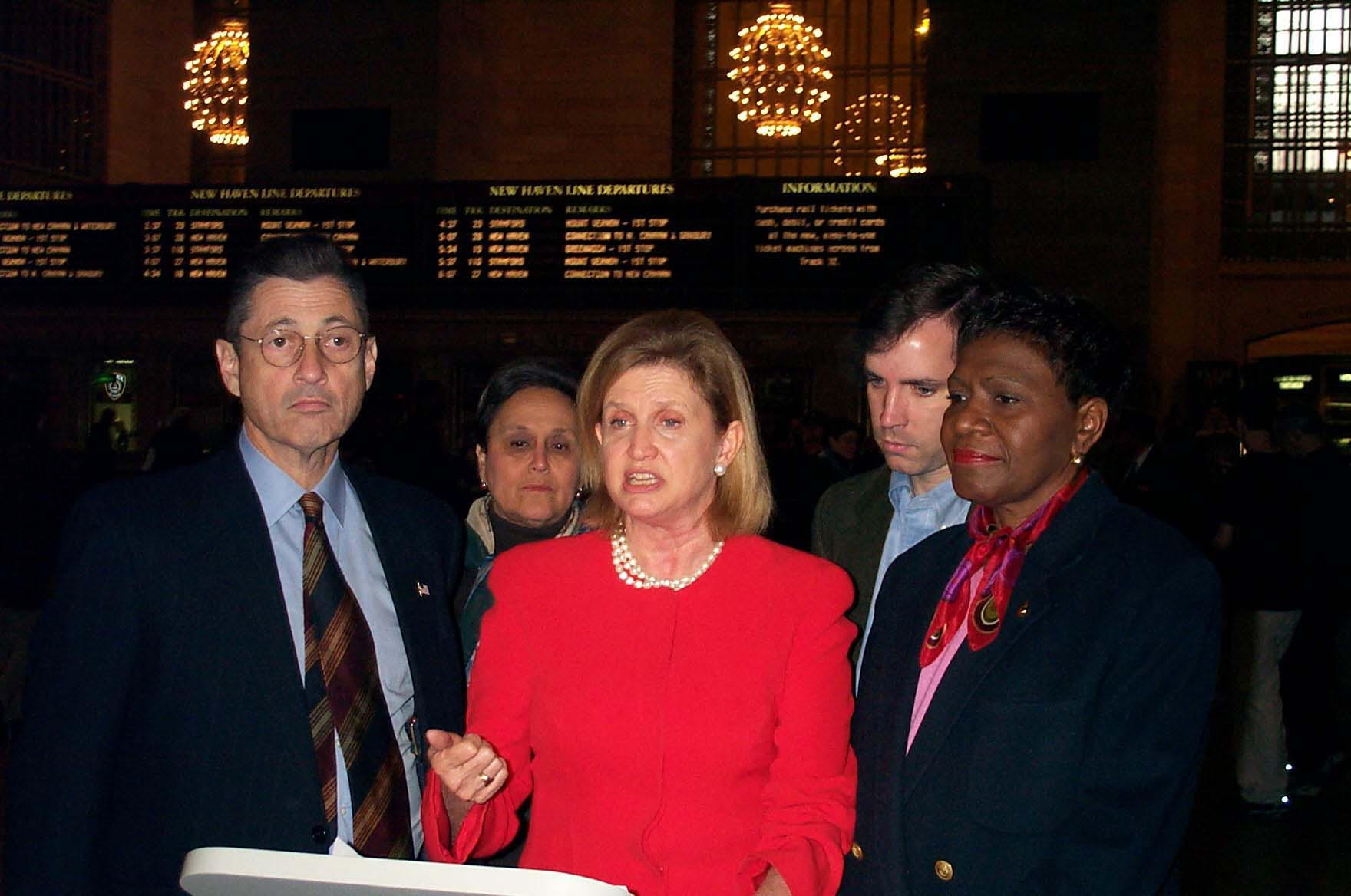 At Grand Central Station, Congresswoman Carolyn Maloney announced $2 million in additional federal funds for construction of the Second Avenue subway with, from left to right, State Assembly Speaker Sheldon Silver, Rita Schwartz, Director of Government Relations for New York's General Contractors Association, City Councilmember Gifford Miller, and Manhattan Borough President C. Virginia Fields (12/2/01).